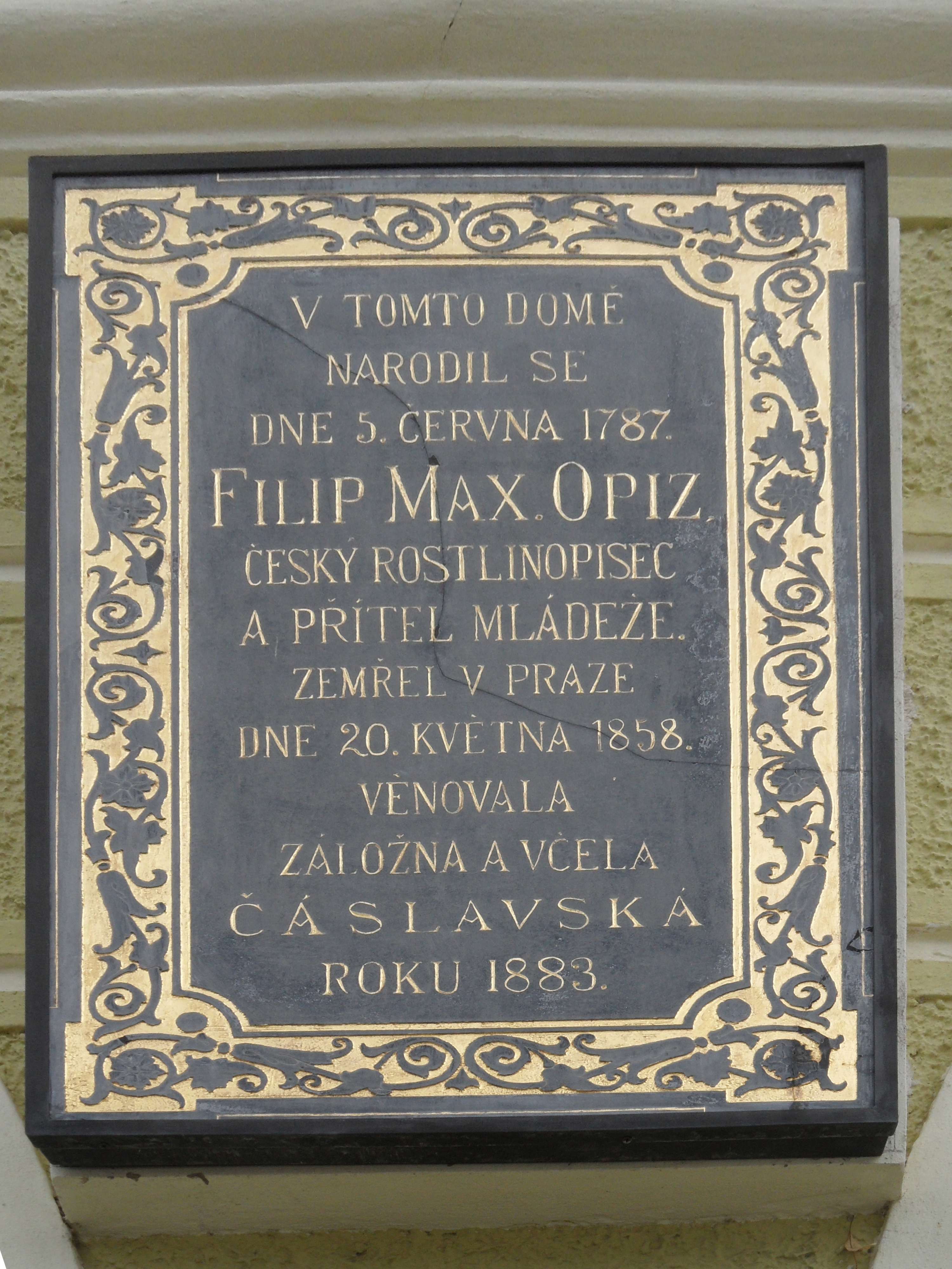 Čáslav, botanist Filip Maxmilián Opiz: Memorial Plaque from 1883 (nám. Jana Žižky z Trocnova 3/3). Kutná Hora District, the Czech Republic.